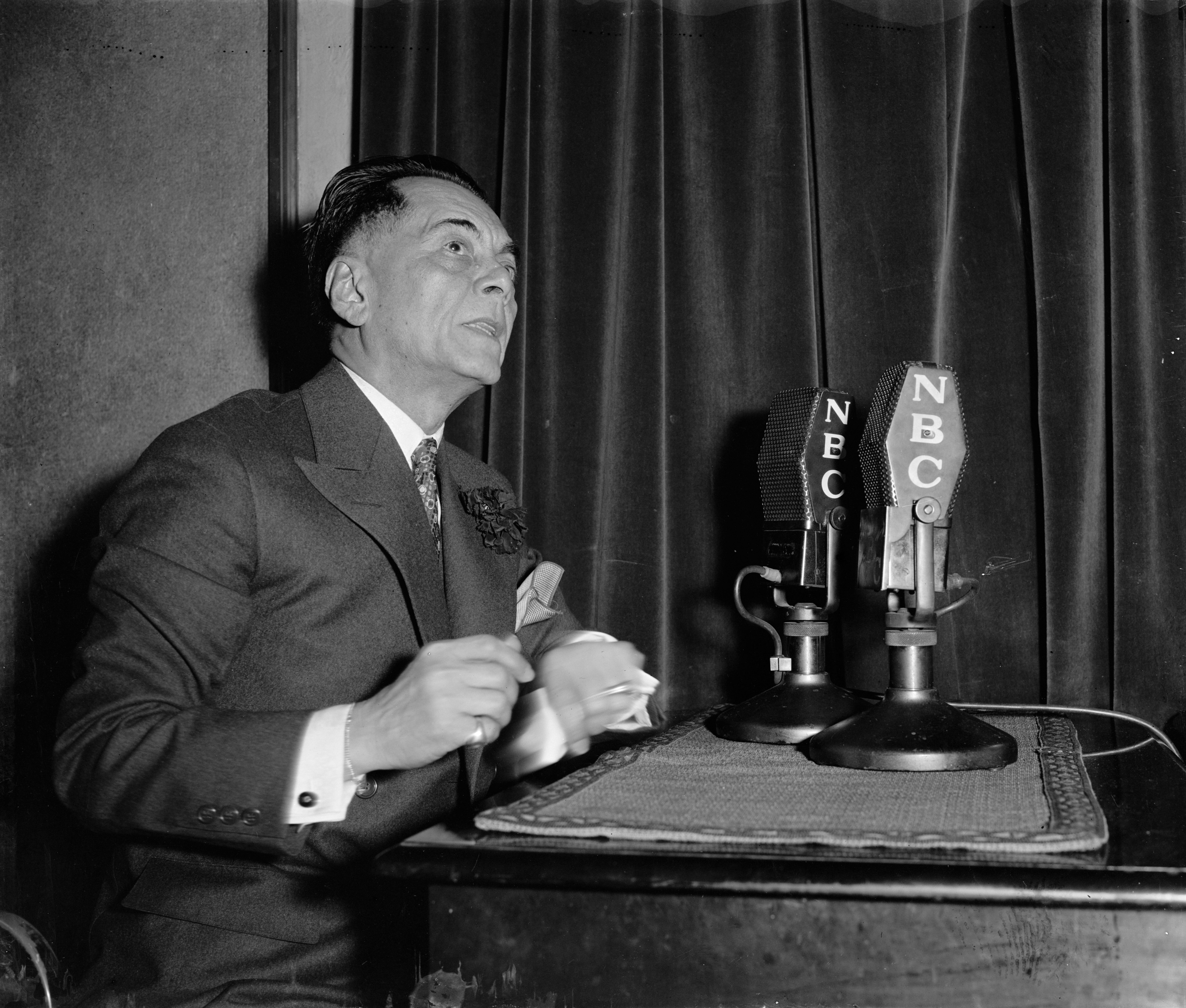 Philippine president broadcasts to home folks. Washington, D.C., April 5. President Manuel Quezon of Philippine Commonwealth broadcast from Washington today to his fellow-countrymen in Manila. For the 25 minutes he was on the air, President Quezon discussed woman suffrage and urged the 10-year independence program be limited to a shorter period, 4/5/1937